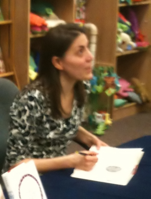 American author Rebecca Stead.